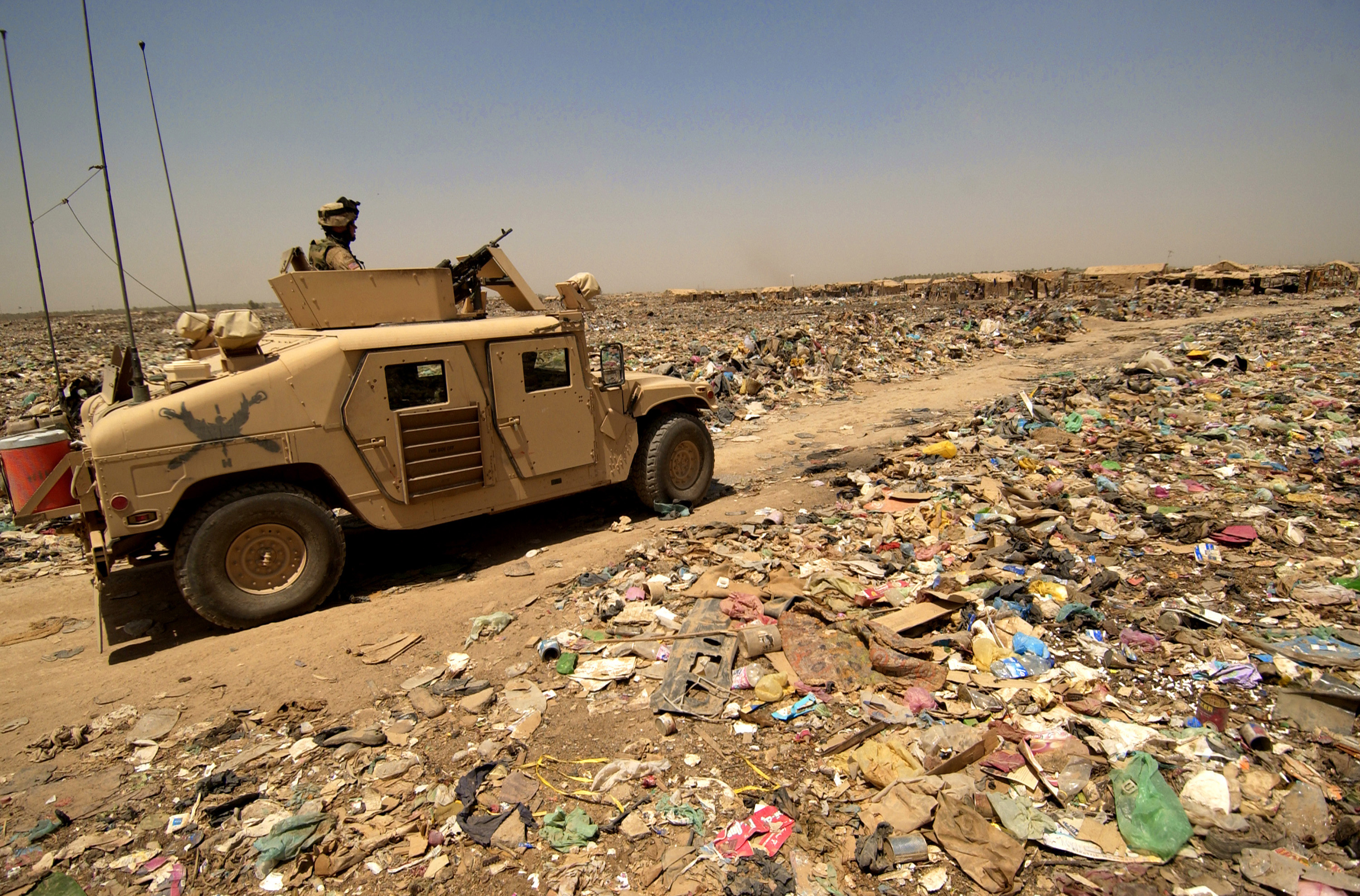 Soldiers from the Army's 3rd Brigade Reconnaissance Team, 3rd Infantry Division drive their Humvee on a path through the trash surrounding a village on the outskirts of Baghdad, Iraq, on Aug. 11, 2005. The soldiers will talk with the residents of the village to make sure no insurgents have sought refuge, while also handing out school supplies, toys and candy to the children.